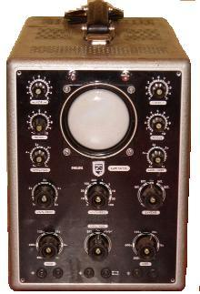 The Philips GM5659 is a laboratory scope built in 1955. The frequency range is 1Hz to 1MHz. It is a all vacuumtube device.